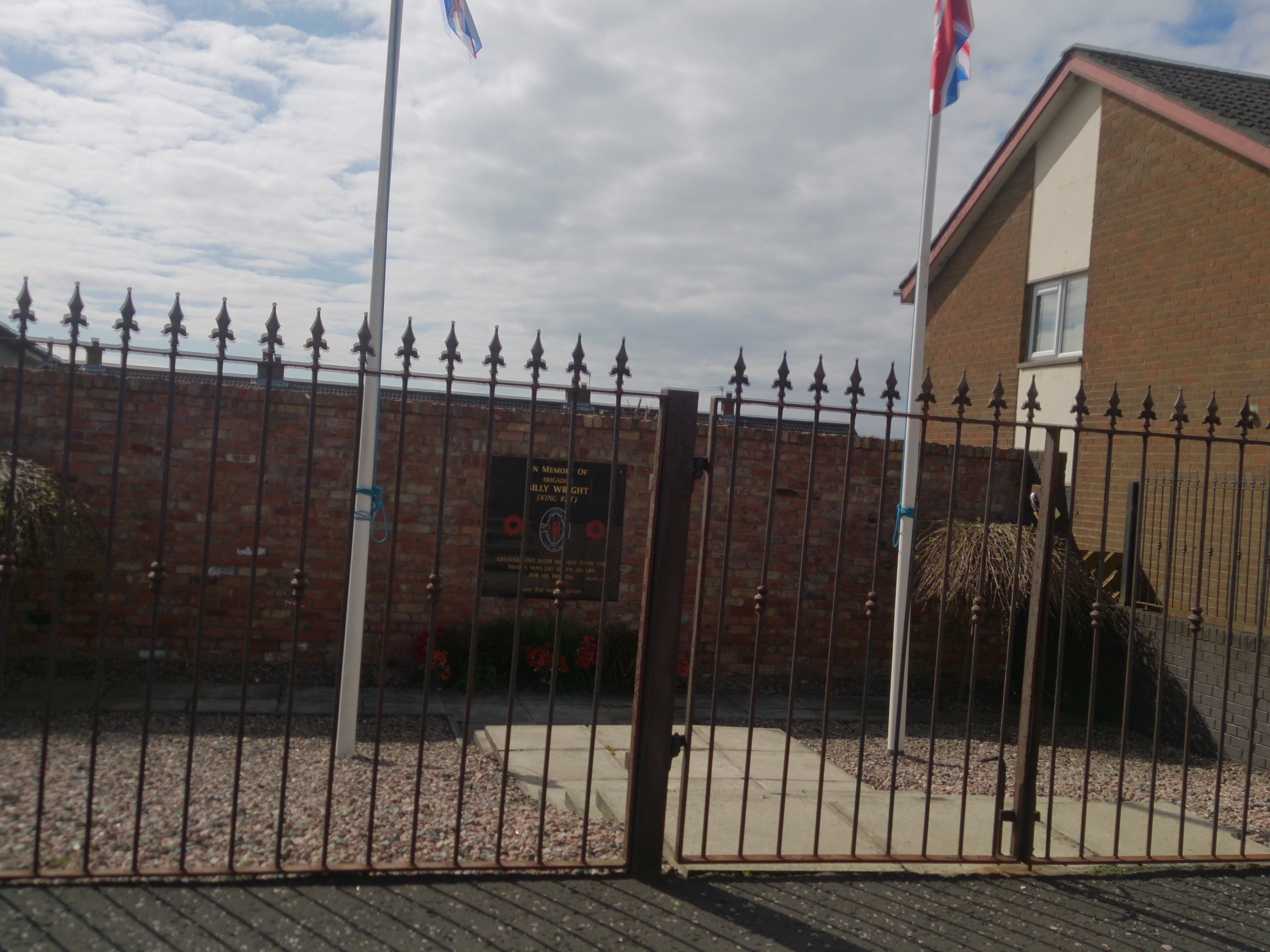 A memorial garden for the loyalist paramilitary leader Billy Wright inthe Ballycraigy area of Antrim.